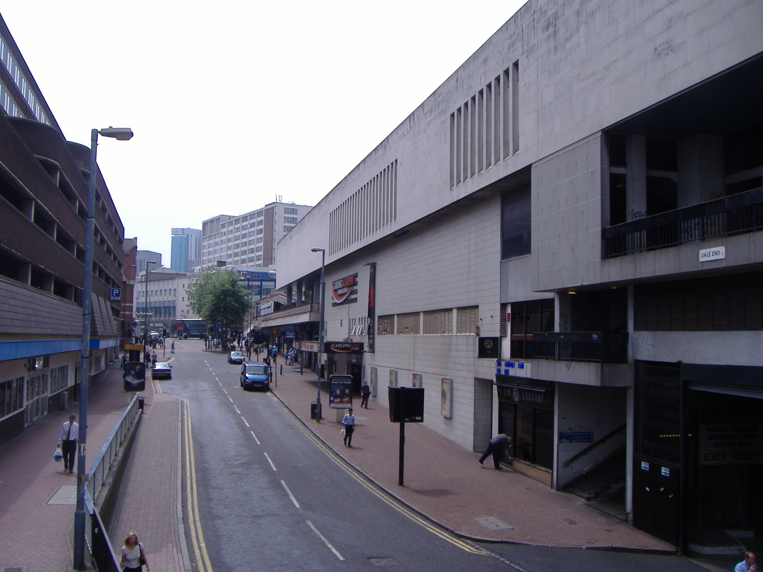 The view from the bridge above Dale End in Birmingham, England looking down the street. To the left is Dale House and car park and to the right is Priory Square and the former Carling Academy.